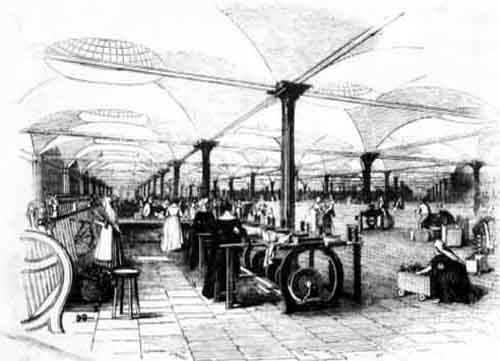 Drawing of Marshall's Mills, Holbeck showing operators at their machines. From the Penny Magazine Supplement, December 1843 "A Day at a Leeds Flax Mill".